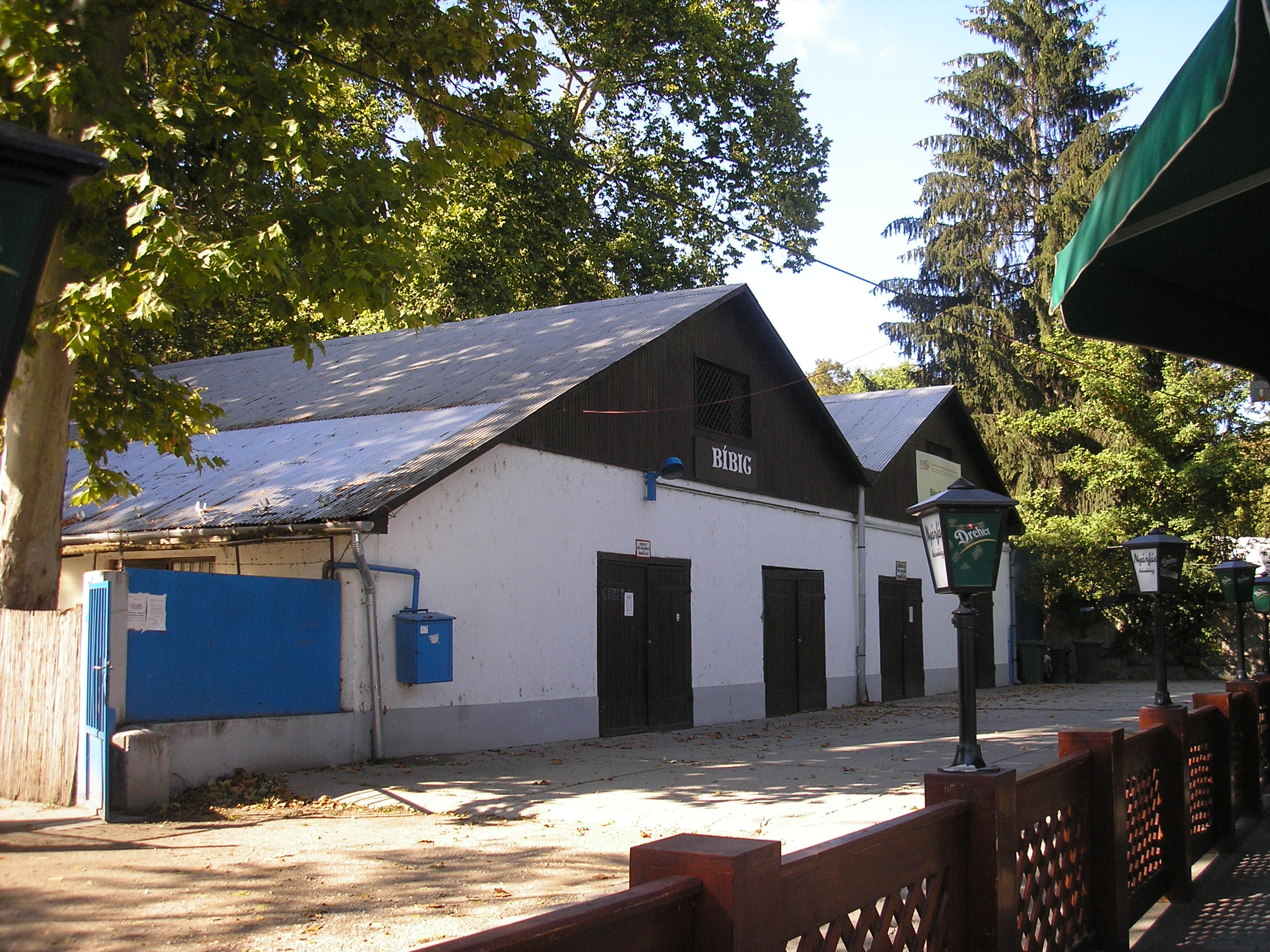 Boathouse at Roman Beach, Budapest, Hungary